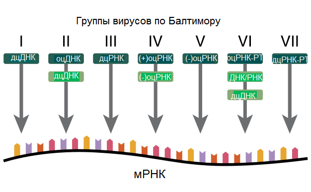 Virus Baltimore Classification in russian